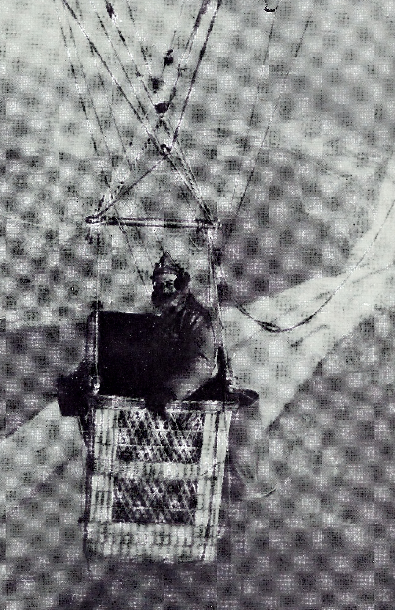 French observer aboard observation balloon. Original description: FUR-MUFFLERED AND GLOVED, A FRENCH AËRONAUT PREPARED FOR A LONG STAY IN THE AIR TO OBSERVE THE ENEMY'S OPERATIONS This photograph was made from a new type of observation balloon which carries two baskets. The second basket, accommodating the photographer, hangs very near the one shown in the picture.